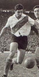 Luis Artime playing for River Plate, he played for River between 1962 and 1965.